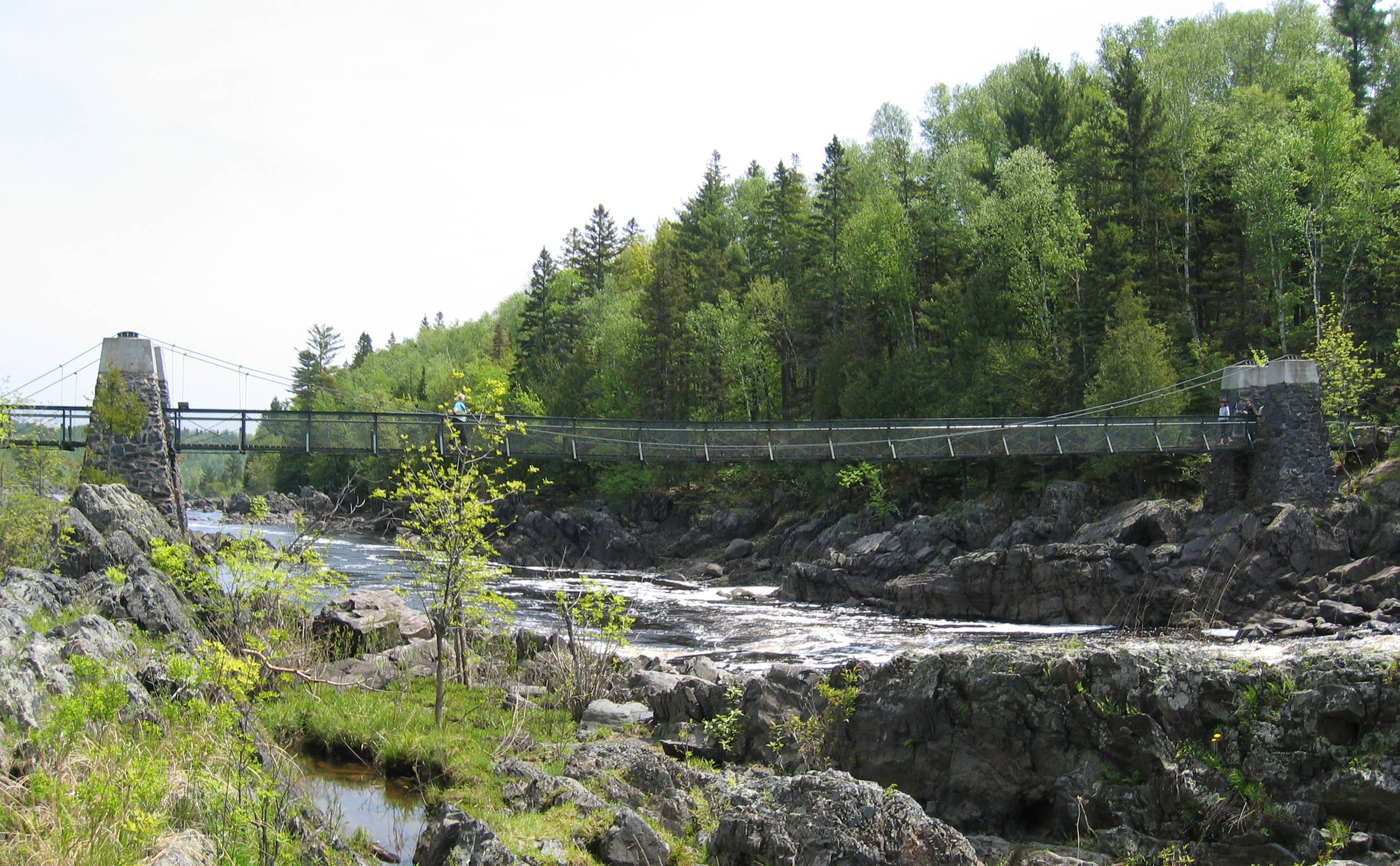 The Swinging Bridge in Jay Cooke State Park in Minnesota